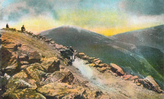 Fred Marriott drives a Stanley Steamer up the Mount Washington Auto Road in the 1905 Climb to the Clouds, Pinkham Notch, NH.